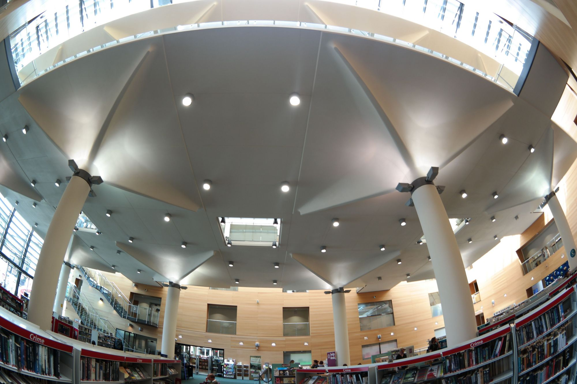 A view of the spacious interior of Jubilee Library, Brighton